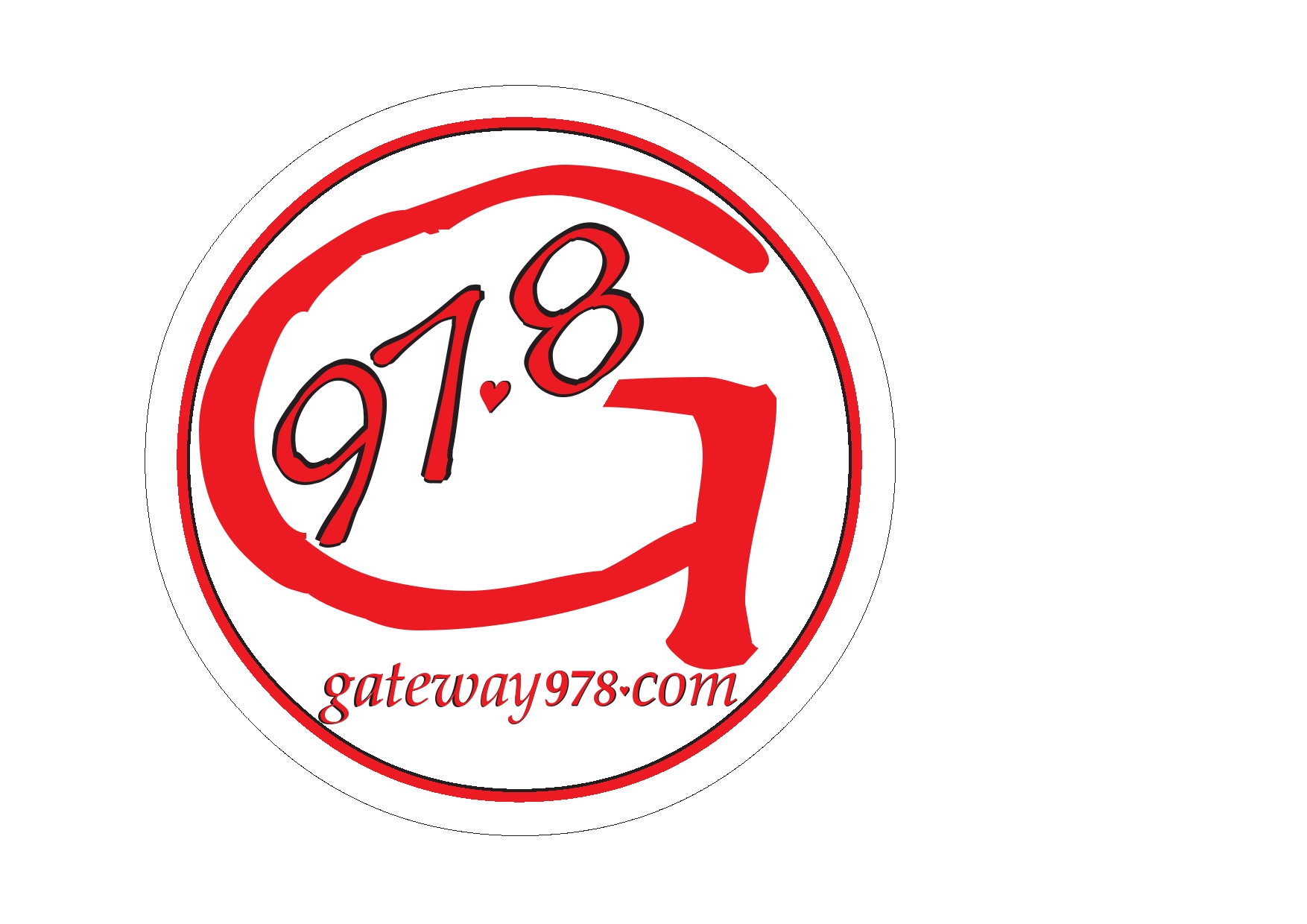 Gateway FM Logo